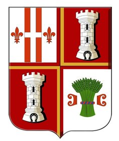 Small Coat of Arms of Knic